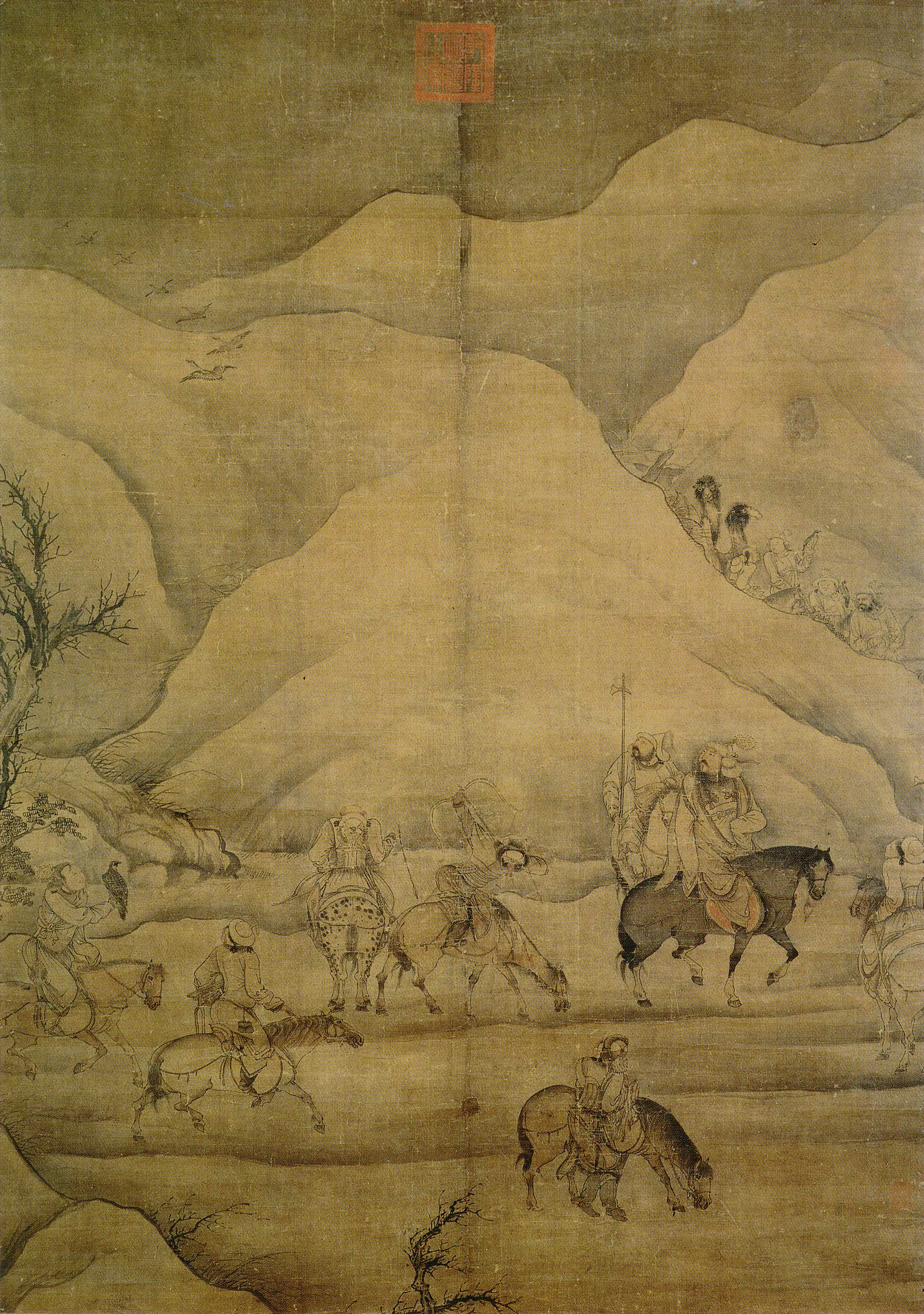 Hunting wild geese (chinese: Sheyan tu), China, Yuan dynasty, late 13th/early 14th century. Ink and paint on silk, height 131.8 cm, width 93.9 cm. National Palace Museum, Taibei, Inv. no. guhua 000872. The man on the black horse has a certain similarity to Temür Khan (1295-1307)